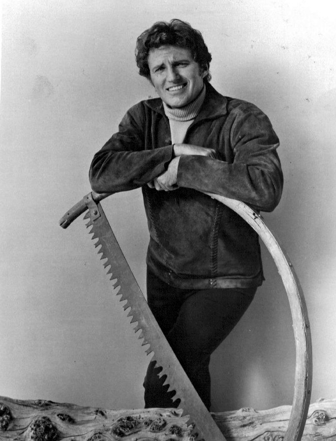 Photo of Robert Brown as Jason Bolt from the television program Here Come the Brides.